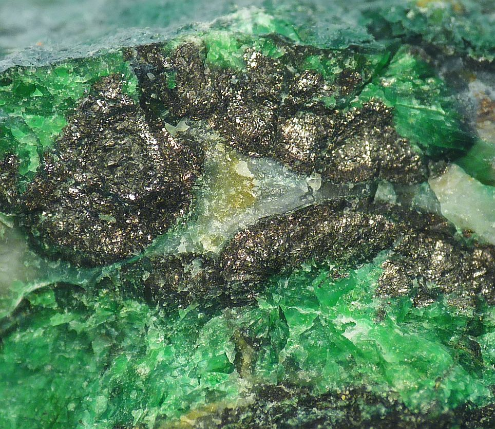 Krutovite Field of view: 1,2 cm Locality: Teliatko serpentinite body (Kälbel), Dobšiná, Rožňava District, Košice Region, Slovakia Grey metallic aggregates of krutovite associated with green nickel-silicates and some quartz. Ex Jaroslav Hyrsl specimen.